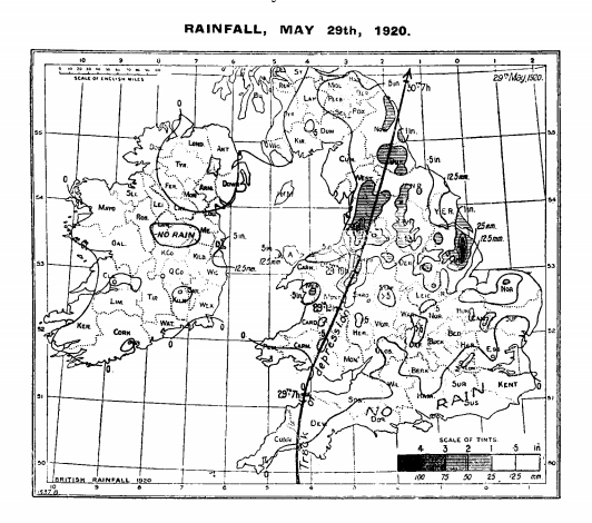 Map showing rain amounts 29 May 1920